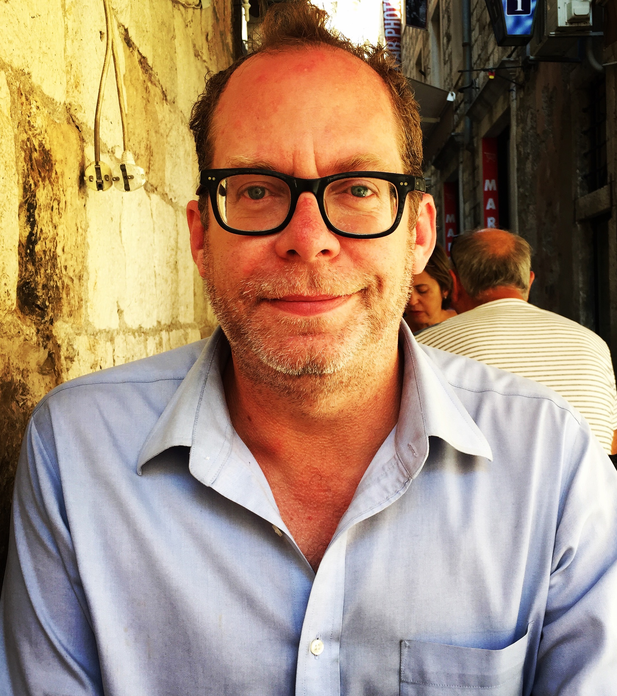 Author and travel writer David Farley in Dubrovnik